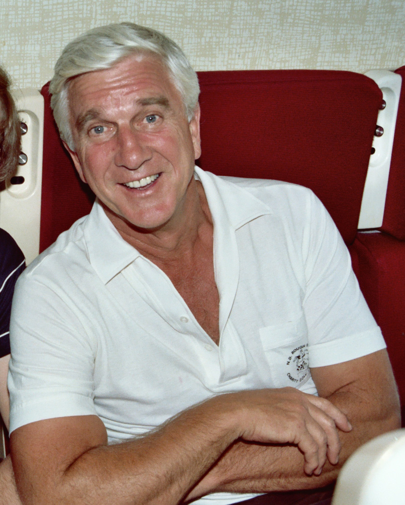 Actor Leslie Nielsen 1982 in a first class seat on United Airlines